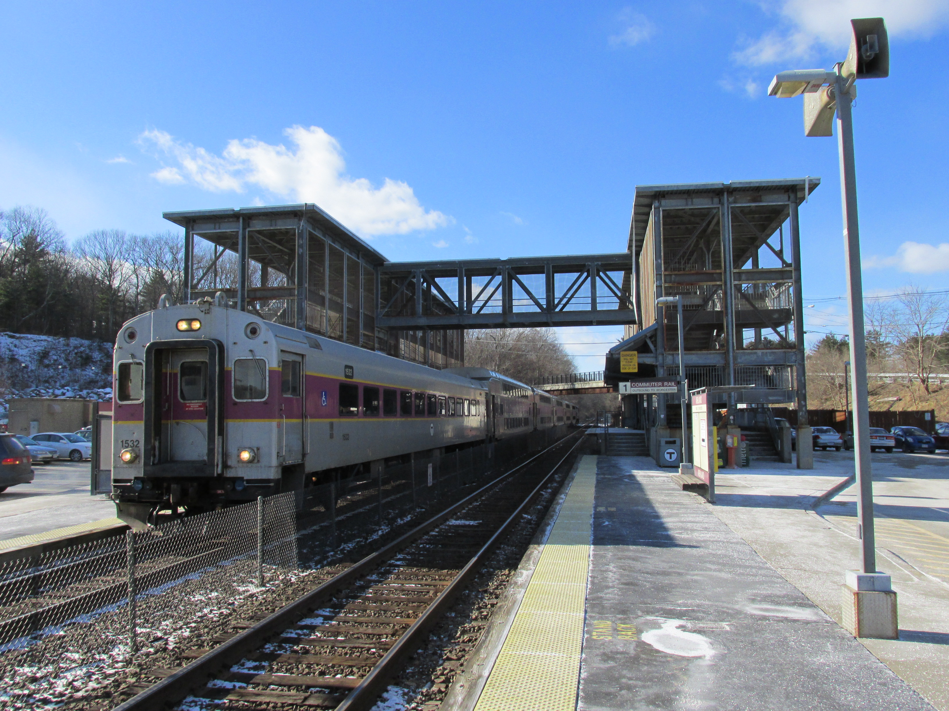 Ashland MBTA station, Ashland Massachusetts